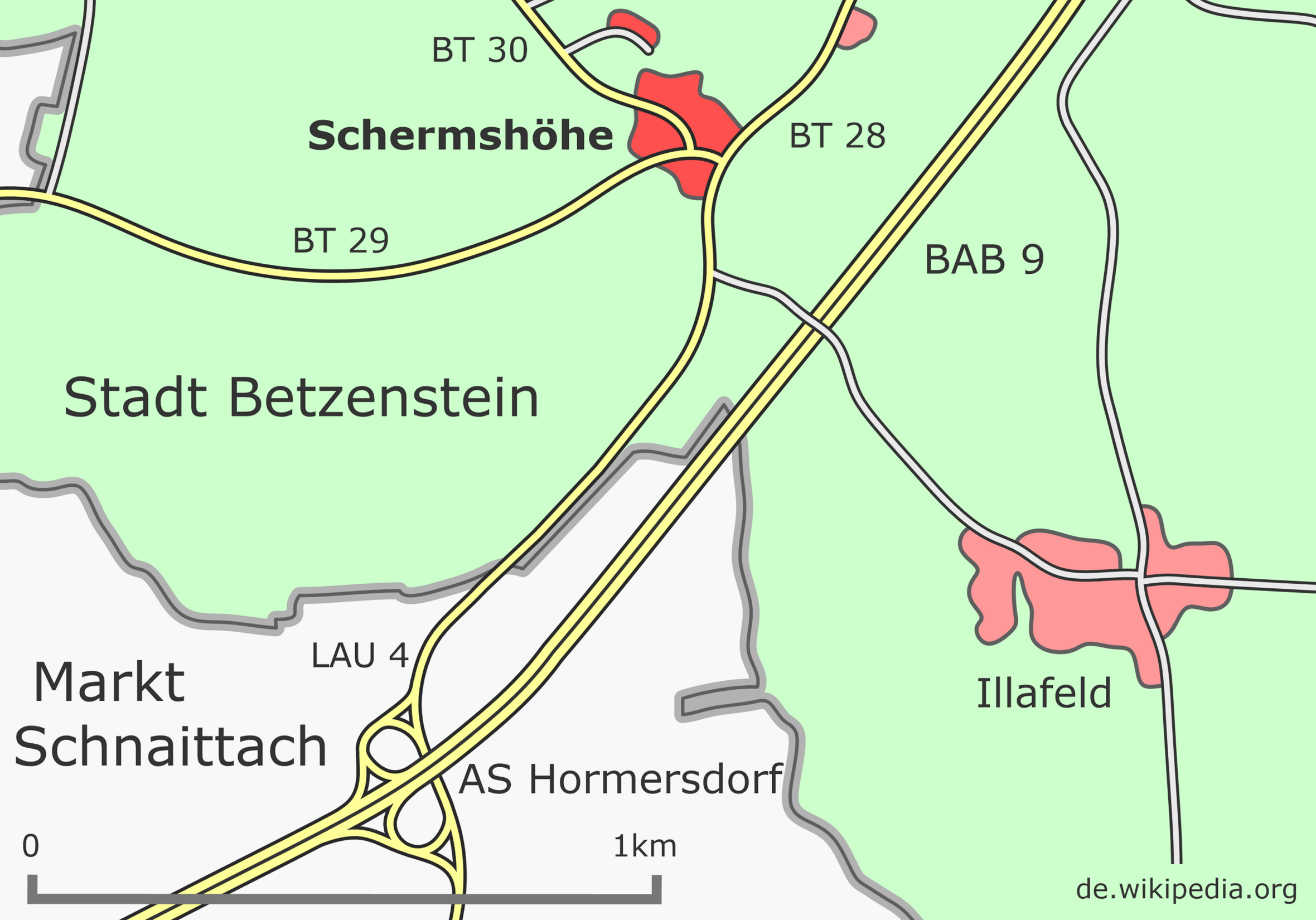 Surroundig map of the hamlet Schermshöhe, part of the town of Betzenstein